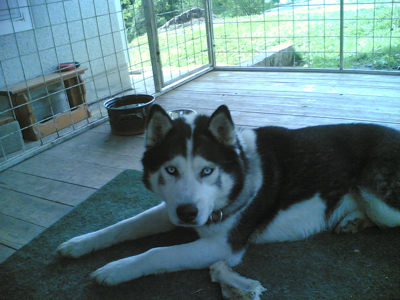 description: Siberian Husky photo taken by Darko Pes